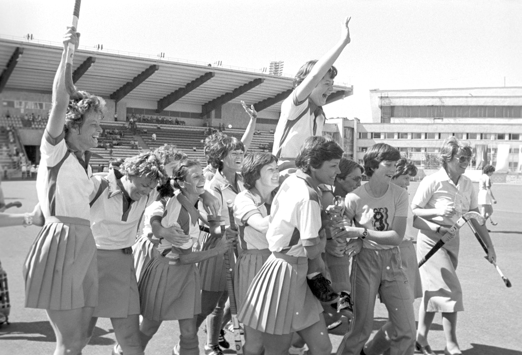 “Women's field hockey team from Zimbabwe”. Women's field hockey team from Zimbabwe is the 1980 Summer Olympics champion. XXII Summer Olympics in Moscow. Small Sports Arena of Moscow's Dynamo Stadium.